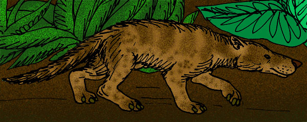 Reconstruction of the Paleocene mesonychid Yangtanglestes conexus, of what is now China and Mongolia. (C) Stanton F. Fink